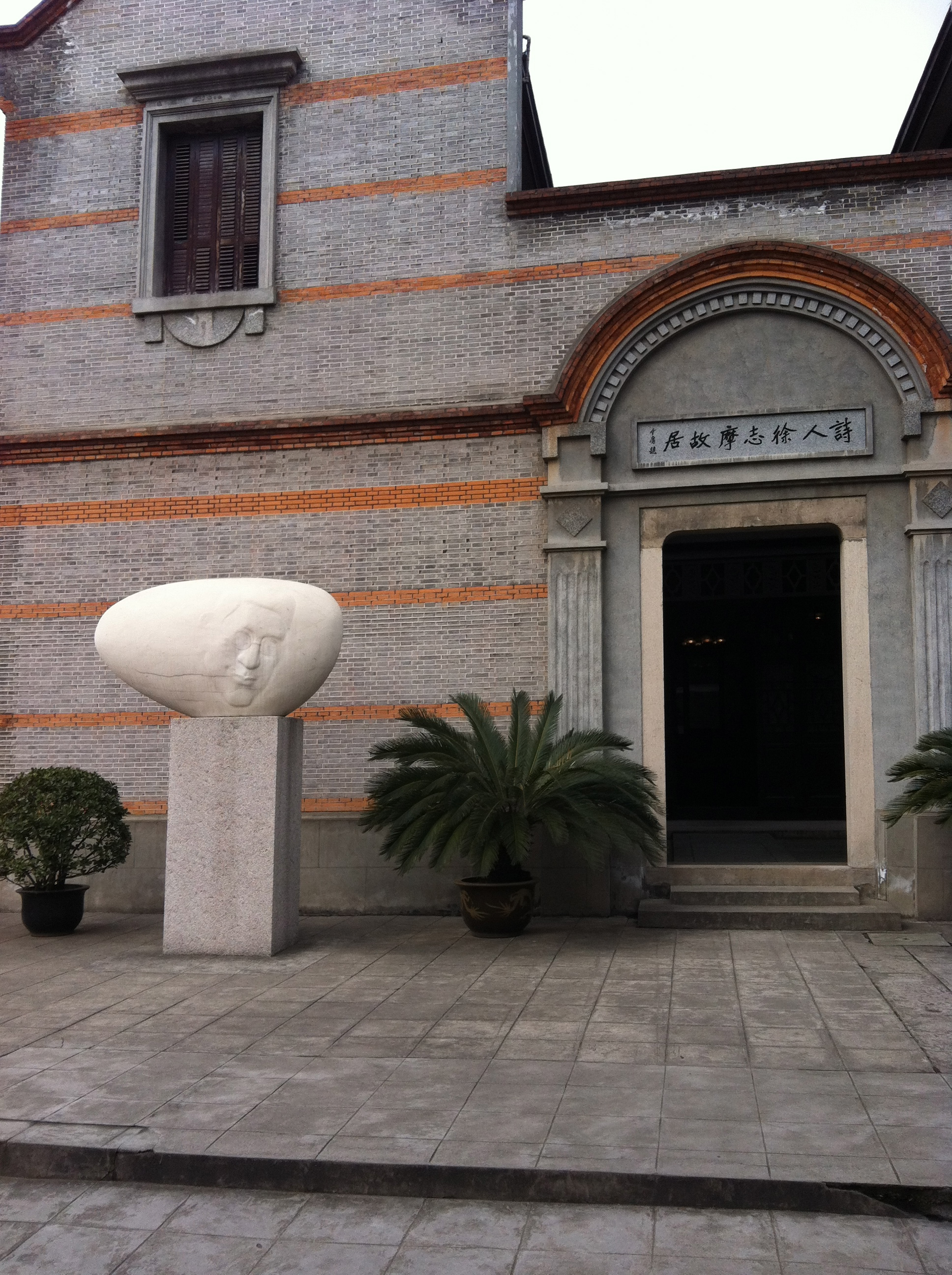 Former residence of Xu Zhimo